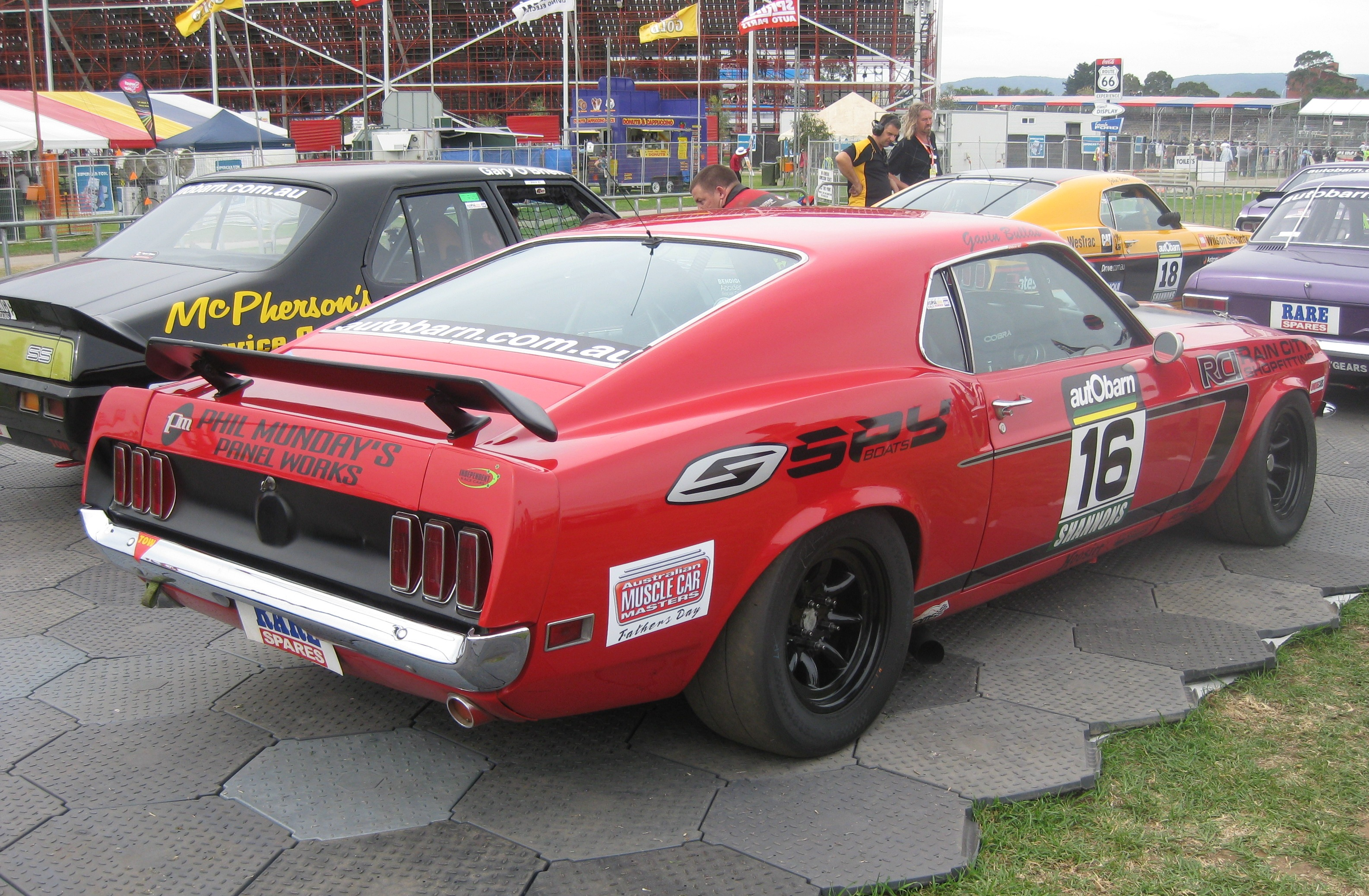 The 1969 Ford Mustang of Gavin Bullas at the Adelaide Parklands Circuit for the opening round of the 2011Touring Car Masters